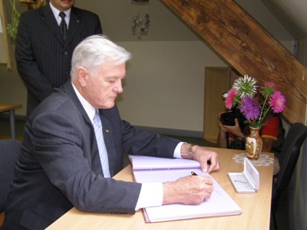 LR Prezidentas Valdas Adamkus renovuotos mokyklos atidaryme